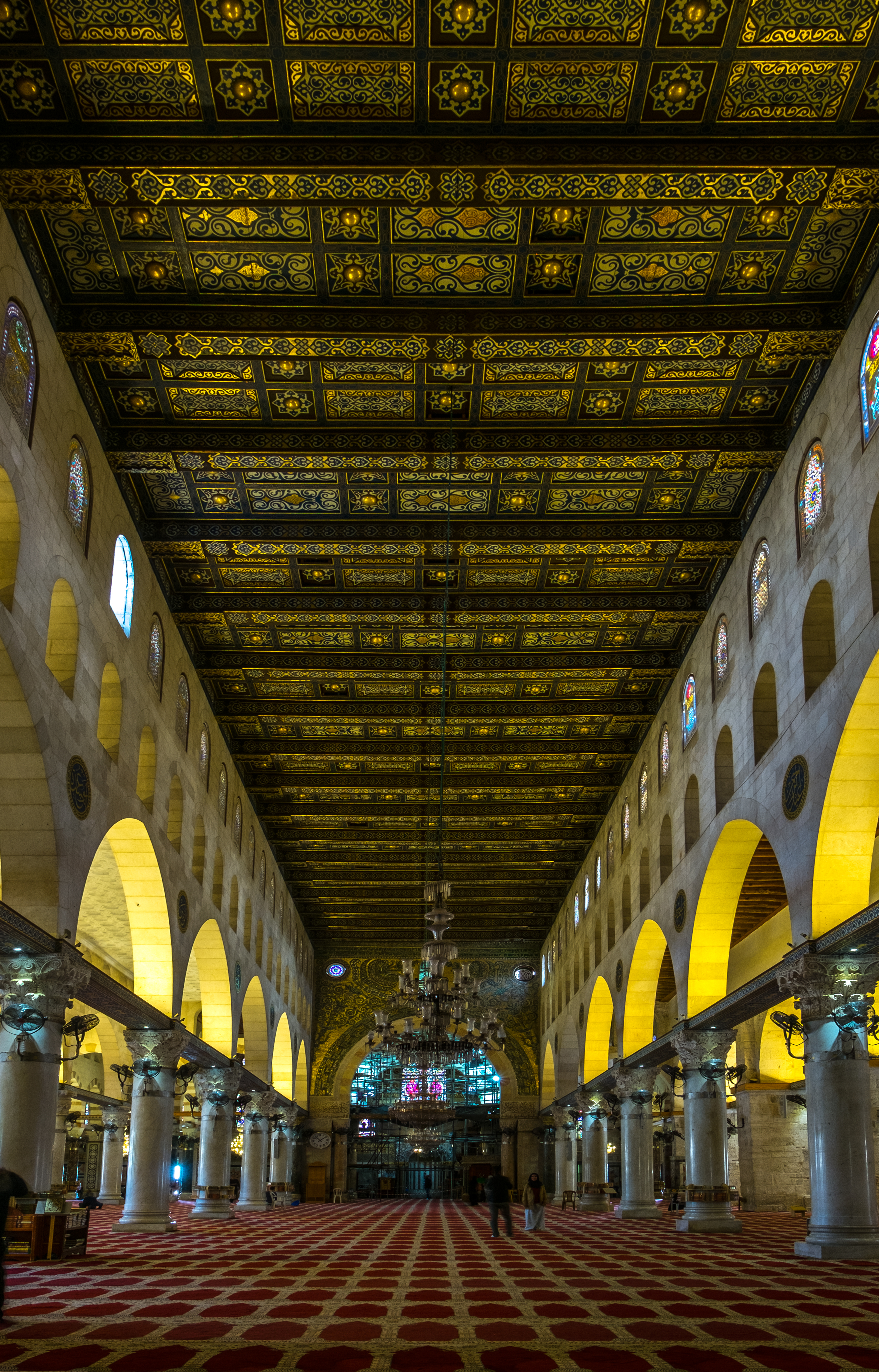 Jerusalem, Al Aqsa Mosque